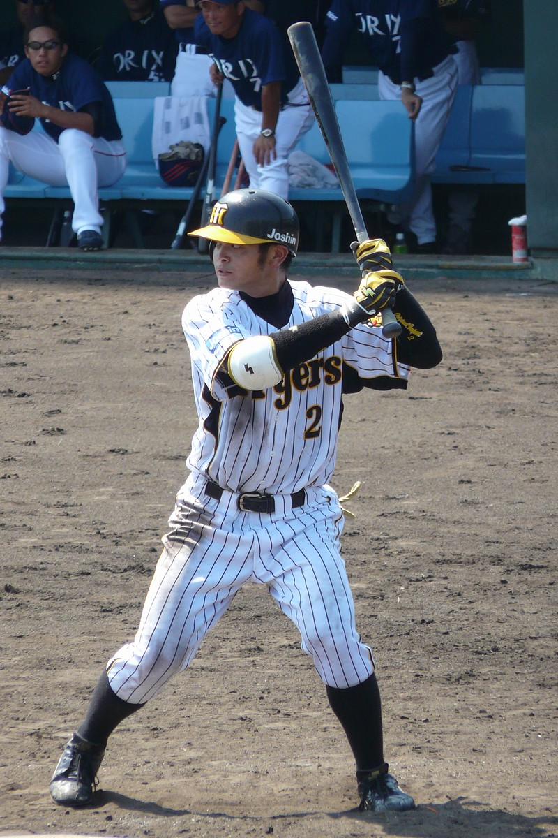 Kohei Shibata, outfielder of the Hanshin Tigers, at Hanshin Naruohama Baseball Ground